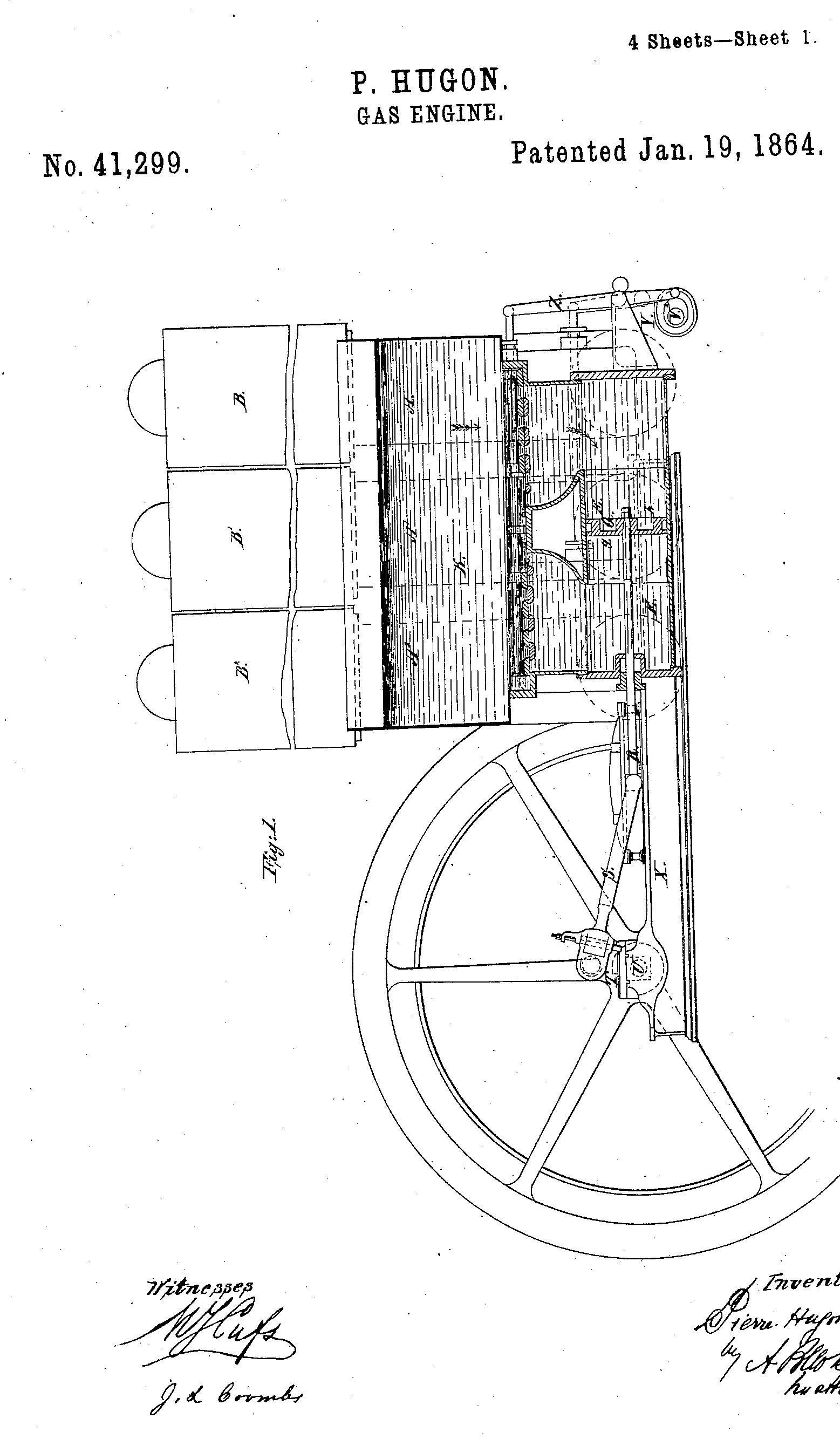 The first sheet of the patent, year 1864. By Pierre Hugon, a French engineer from Paris. The title of the application: Improvement in gas engines.